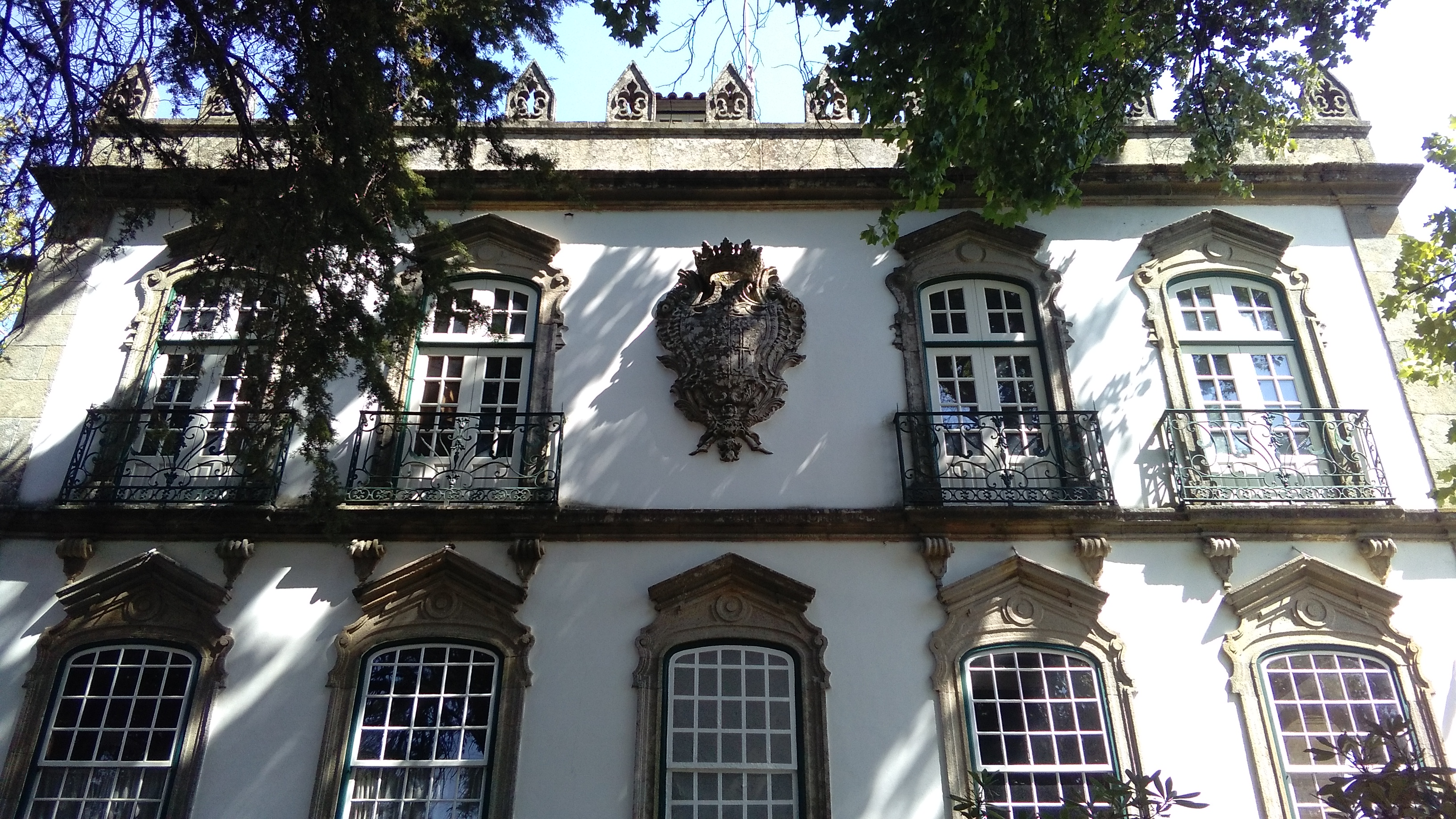 North tower of Casa da ínsua in Penalva do Castelo, Portugal. The Albuquerque Pereira coat of arms is visible in the centre.